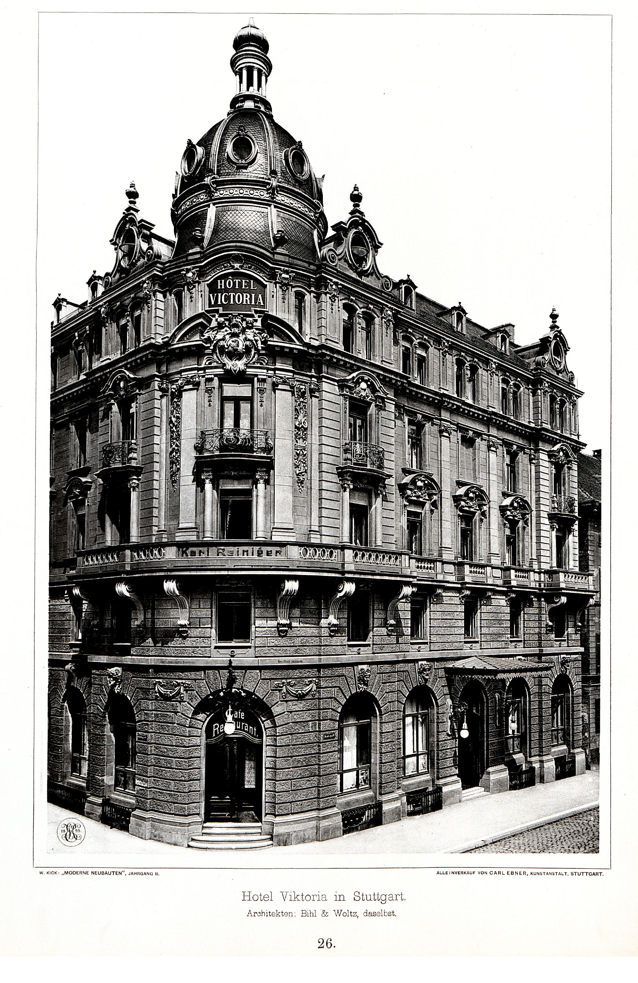 Hotel_Viktoria_in_Stuttgart,_Architekten_Bihl_&_Woltz,_Tafel_26,_Kick_Jahrgang_II.jpg